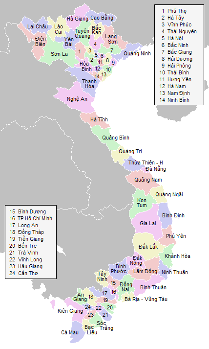 Labeled map of Vietnamese provinces